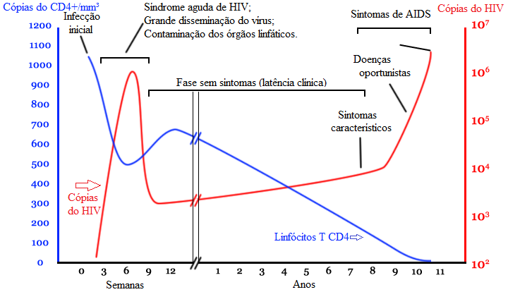 HIV course without any treatment (in portuguese)